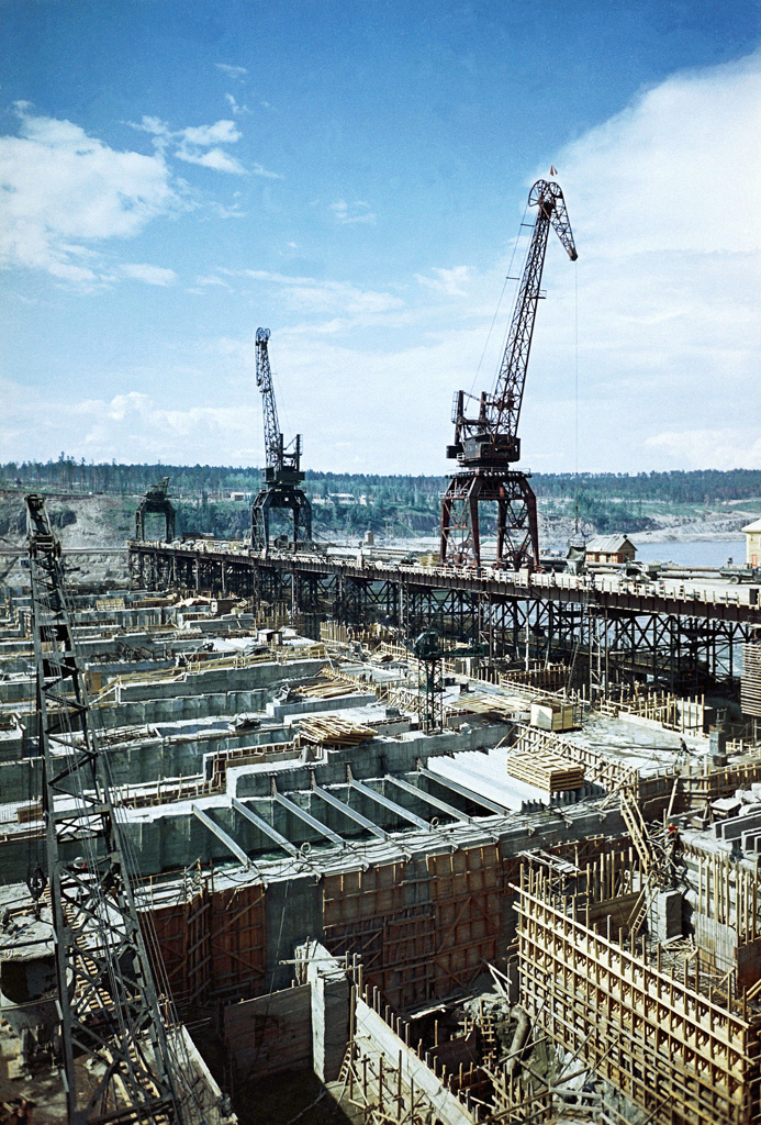 “Building the Bratsk hydropower plant”. Building the Bratsk hydropower plant's overflow dam.